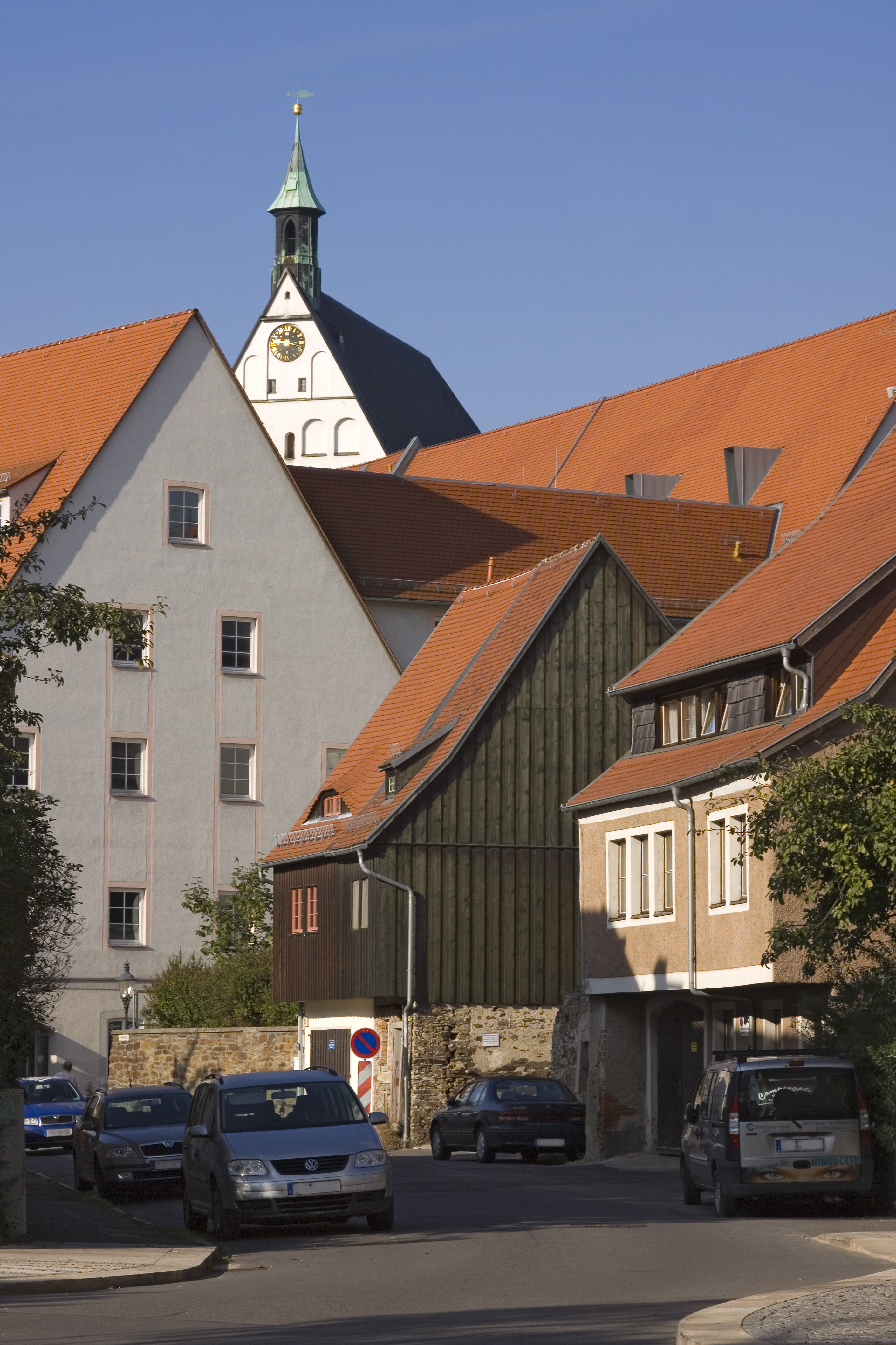 Freiberg: old tanners' houses, cathedral in the background